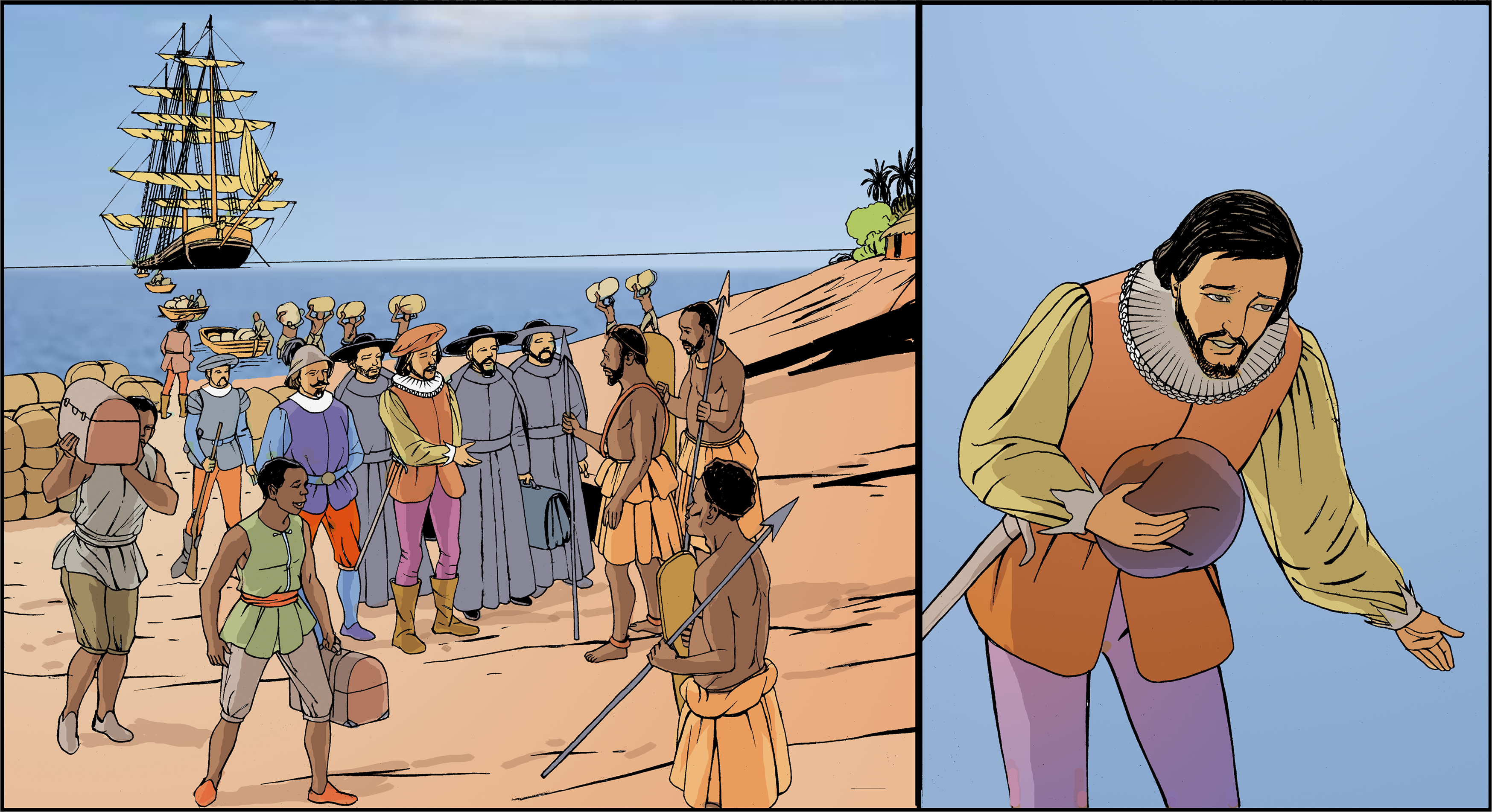 Taken from Nzinga Mbandi: Queen of Ndongo and Matamba from the UNESCO series on women in African history. Illustrations by Pat Masioni